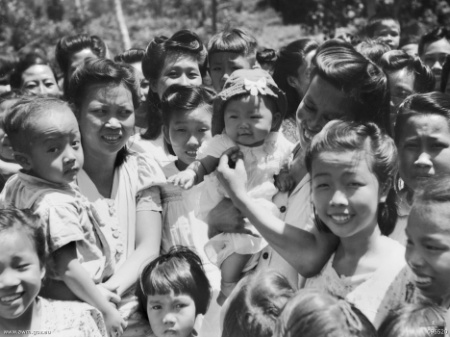 RABAUL AREA, NEW BRITAIN. 1945-09-13. CHINESE CIVILIANS, INTERNED BY THE JAPANESE AT A CAMP 15 MILES WEST OF RABAUL, WERE CONTACTED BY A PARTY OF AUSTRALIAN ARMY AND RED CROSS OFFICIALS SOON AFTER THE ARRIVAL AT RABAUL OF A FORCE FROM 4 INFANTRY BRIGADE TO OCCUPY THE AREA. A GROUP OF CHINESE WOMEN WITH THEIR CHILDREN. MANY OF THE SMALLER CHILDREN WERE BORN IN THE CAMP AND SOME OF THE OLDER ONES, UP TO THREE YEARS, HAD NEVER SEEN WHITE EUROPEANS BEFORE MEETING THE CONTACT PARTY.